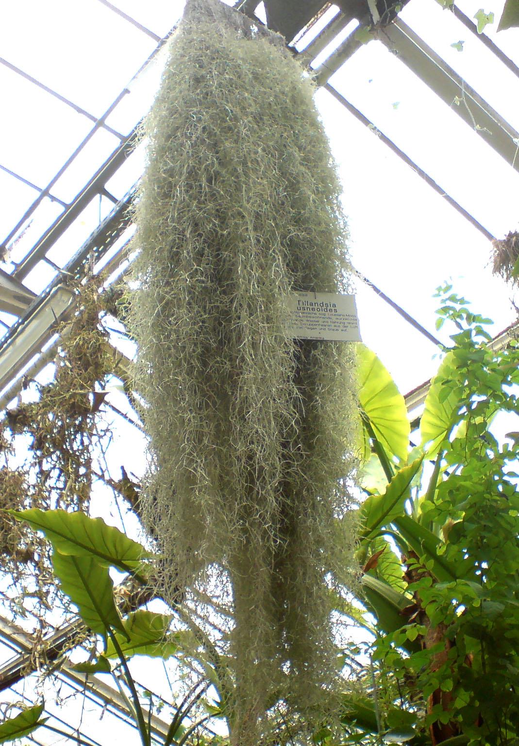 Tillandsia usneoides - Botanical Garden Göttingen